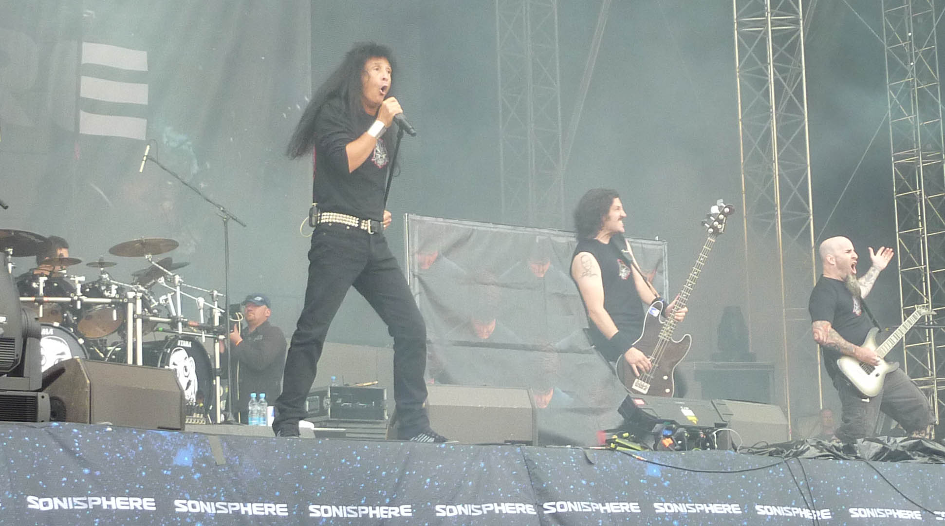 Joey Belladonna, Frank Bello and Scott Ian of Anthrax, performing live at Sonisphere 2010.